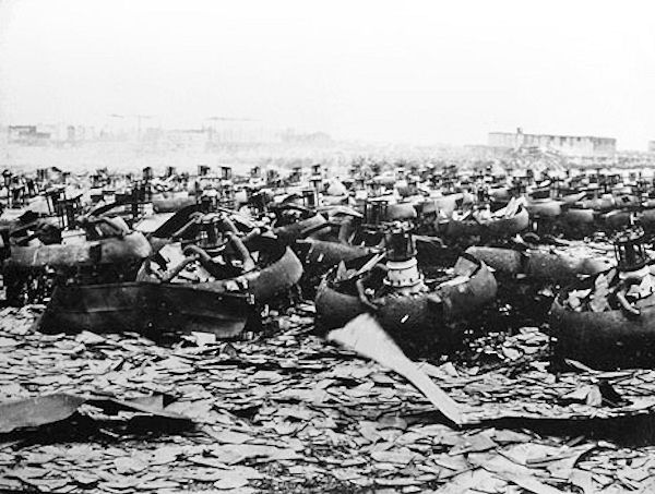 Romorantin Aerodrome, abandoned pile of DH-4 engines and parts